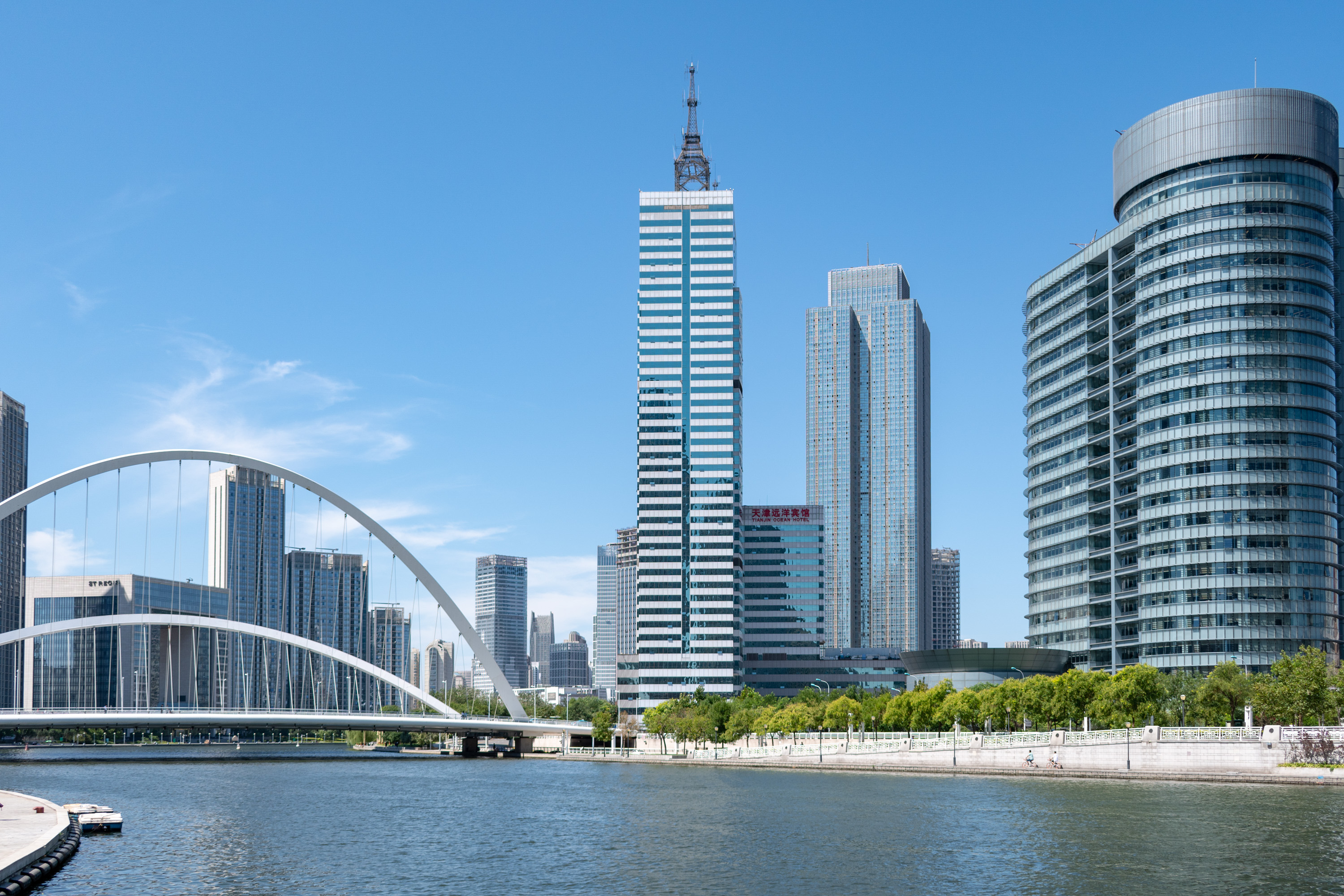 View of Heping District along the Haihe River